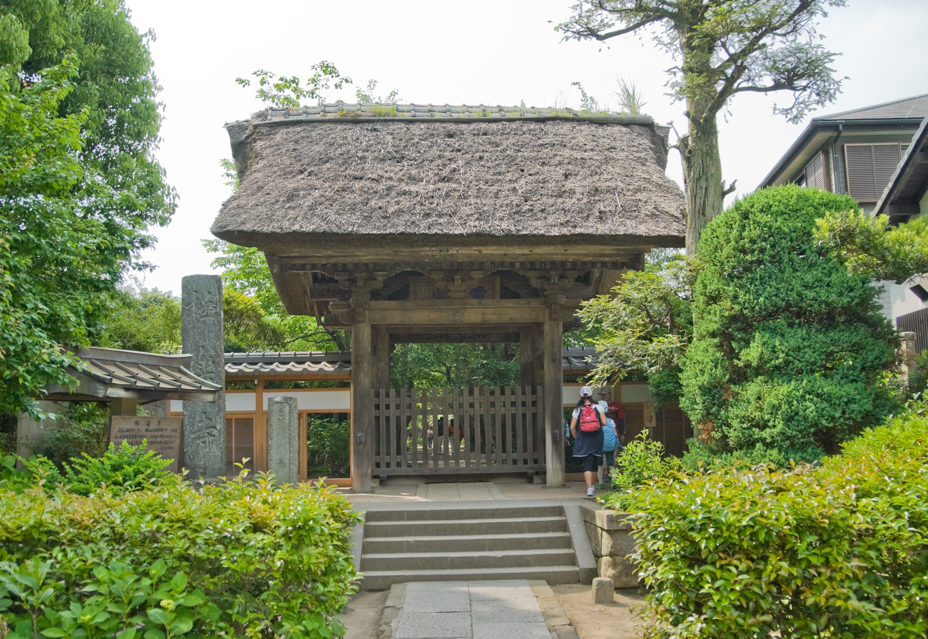 The gate of Gokuraku-ji temple in Kamakura-shi, Kanagawa